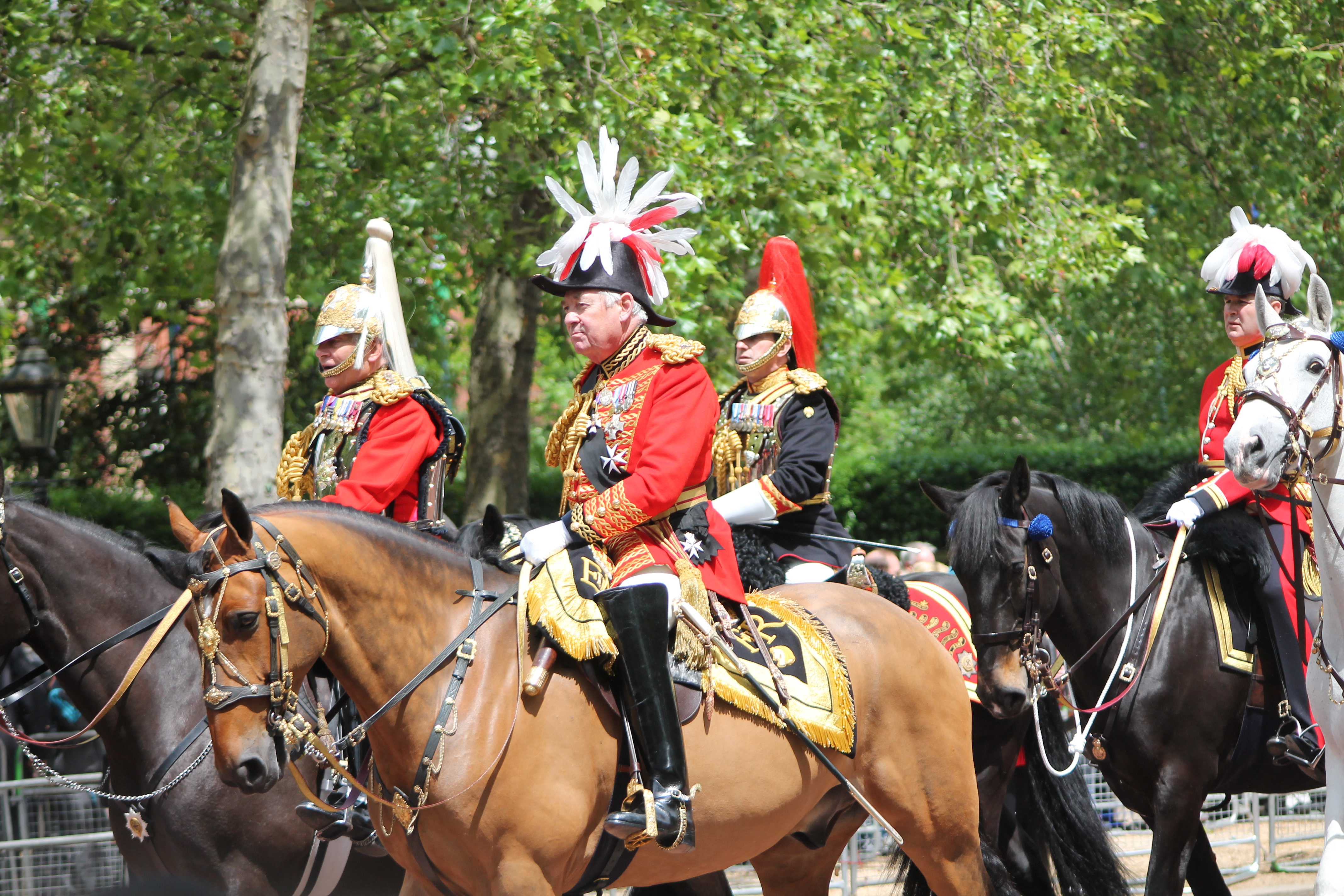 Trooping the Colour, senior offices, 16 June 2012